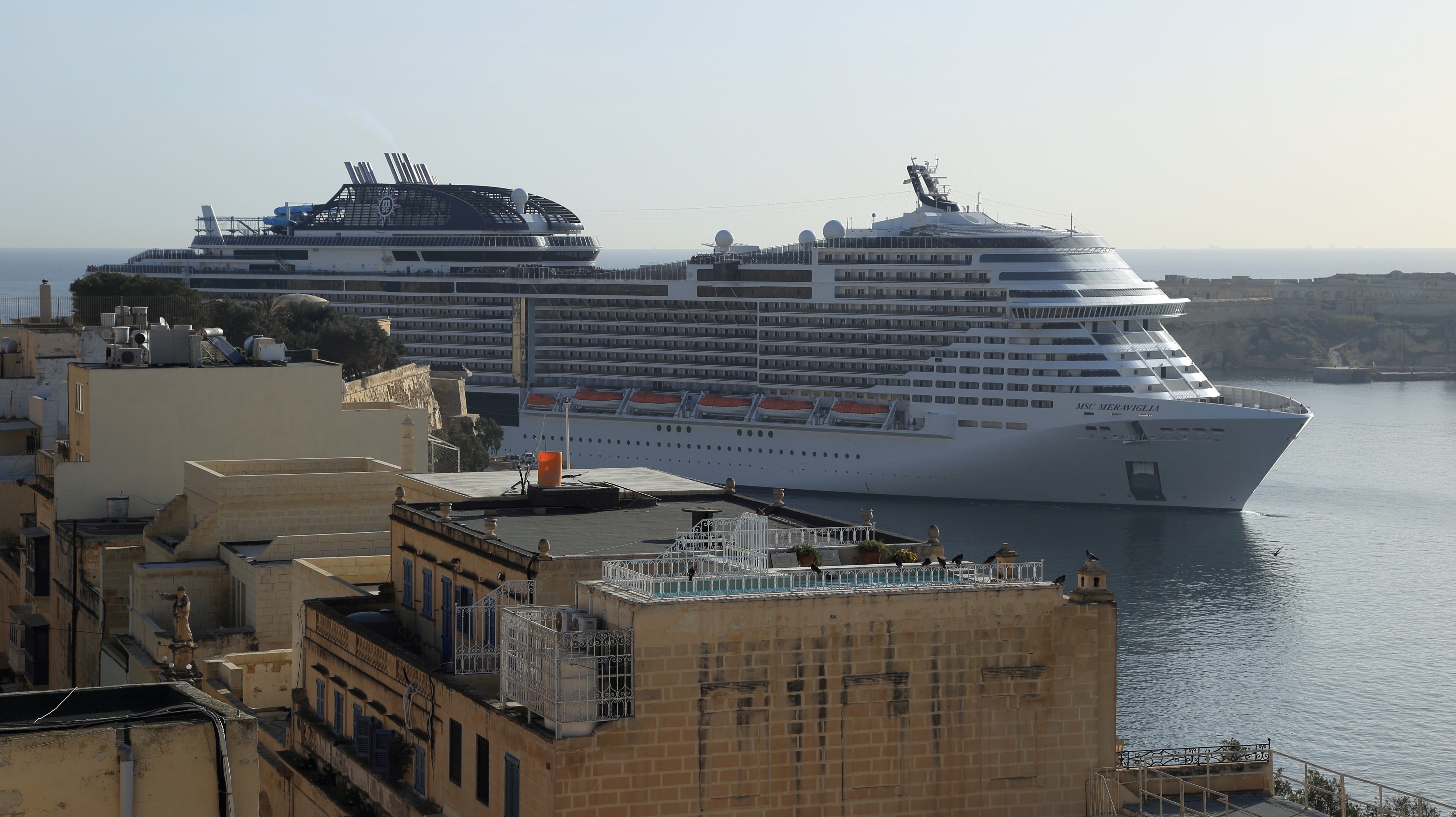 The MSC Meraviglia cruise ship at the Grand Harbour in Malta.